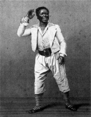 Ira Aldridge, African American actor, in the role of Mungo from The Padlock, 1820s or 1830s.